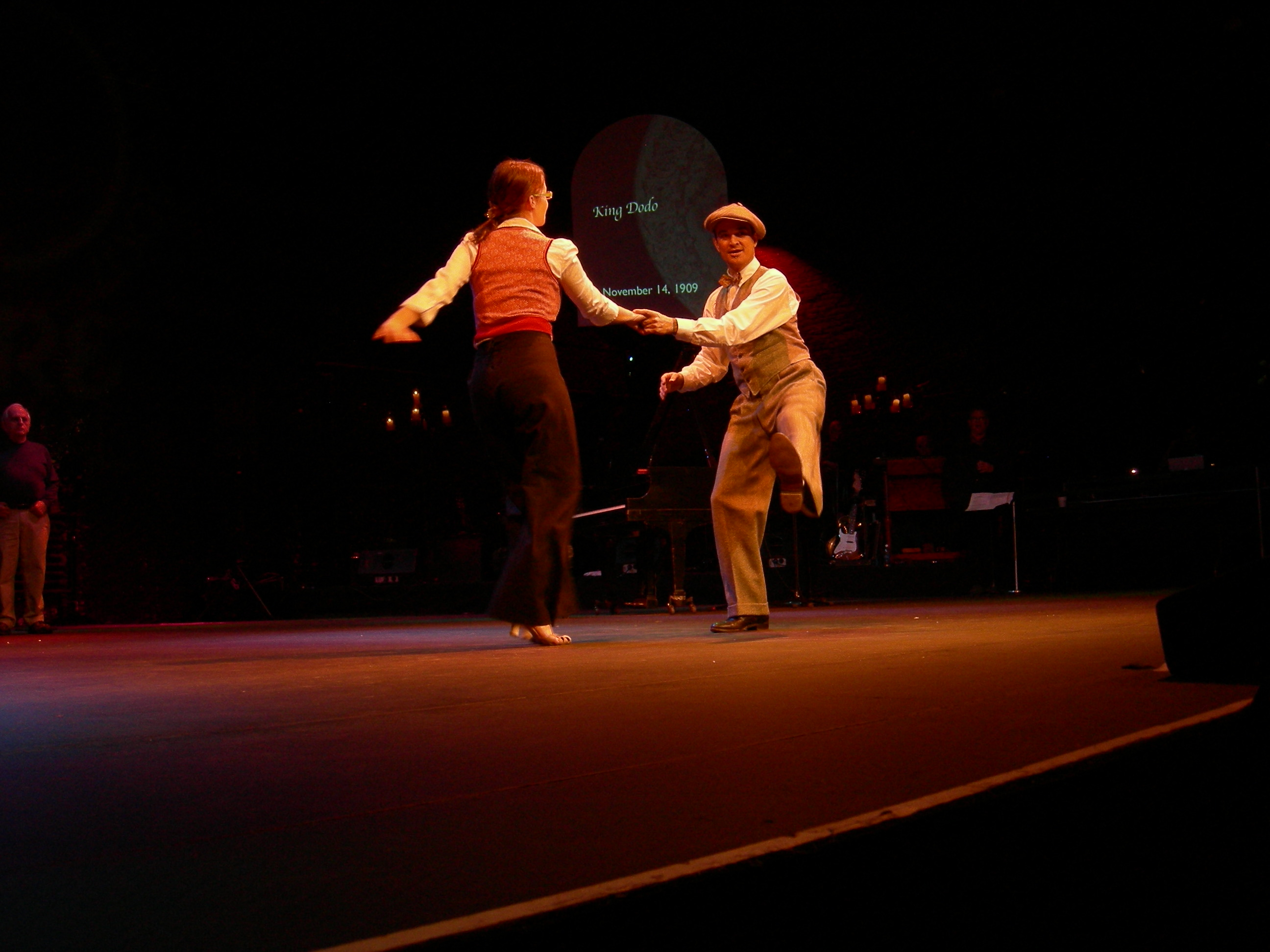 Peter Loggins and Mia Goldsmith swing dancing at the Moore 100 Open House Celebration, celebration of the 100th anniversary of the Moore Theatre, Seattle, Washington.